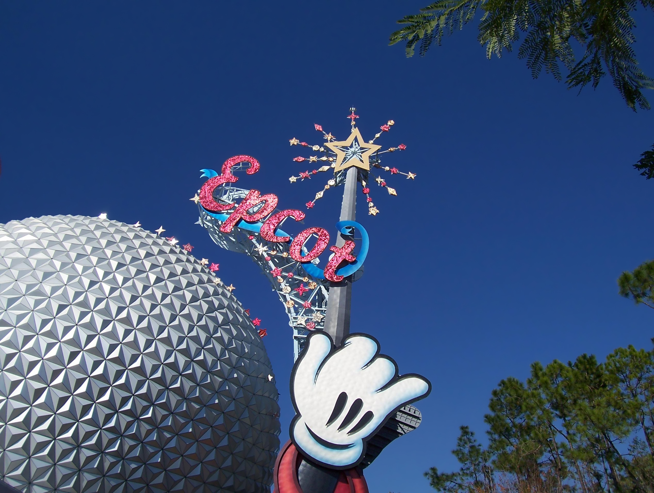 Disney World, Orlando, Florida